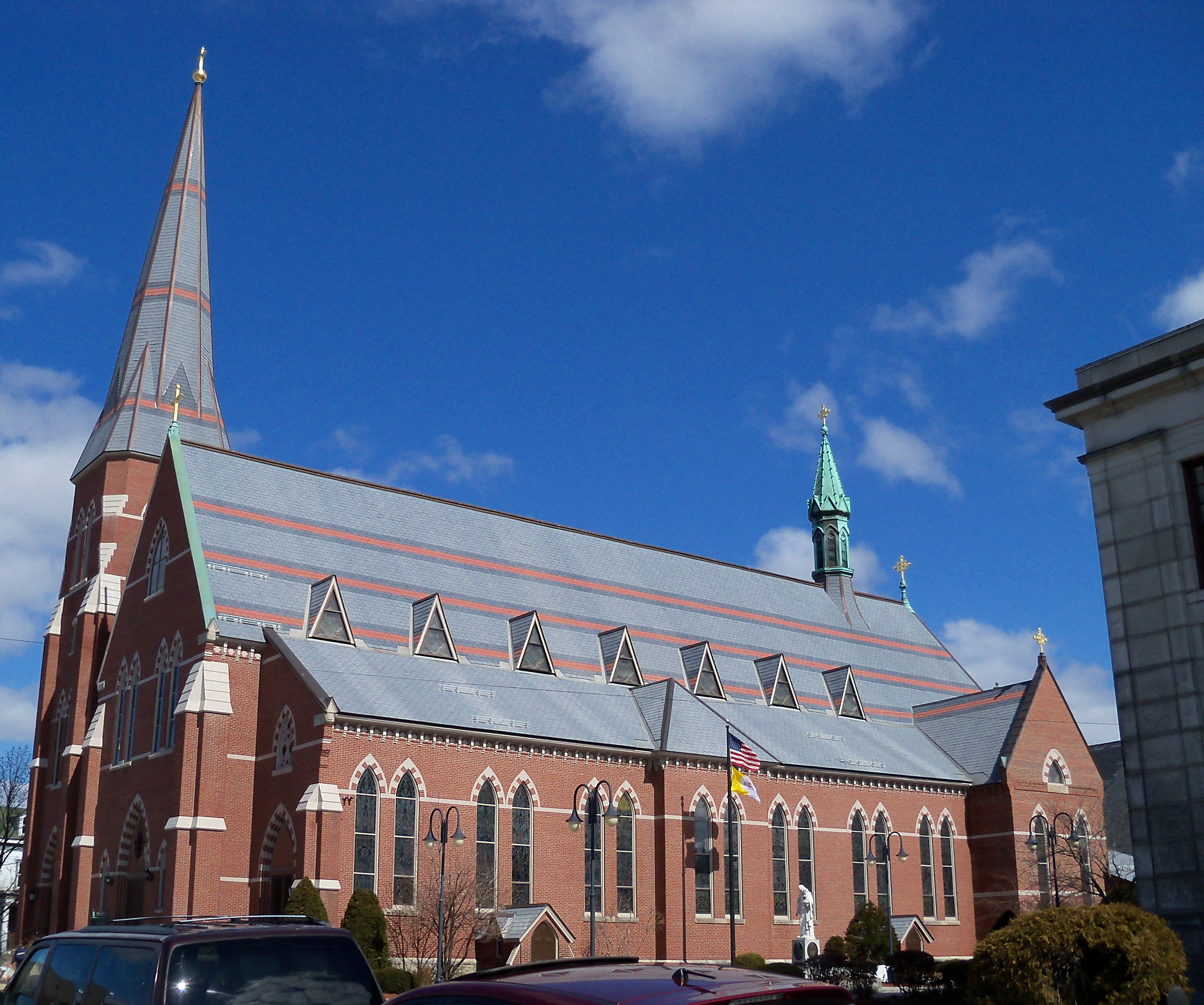 Cathedral of St. Joseph in Manchester, New Hampshire, USA. (Catholic)